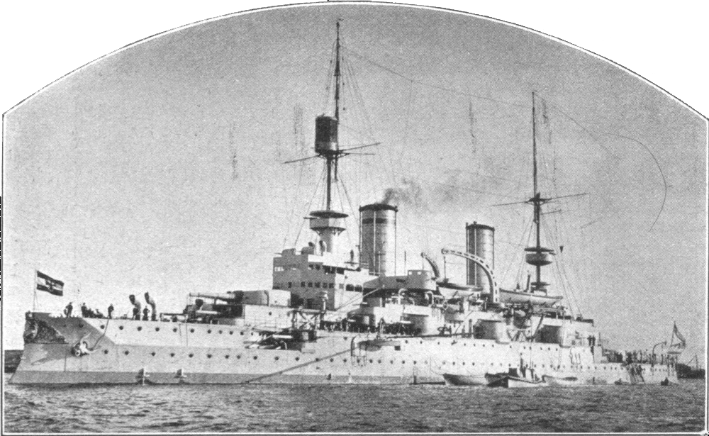 The German pre-dreadnought SMS Kaiser Friedrich III. in 1902.